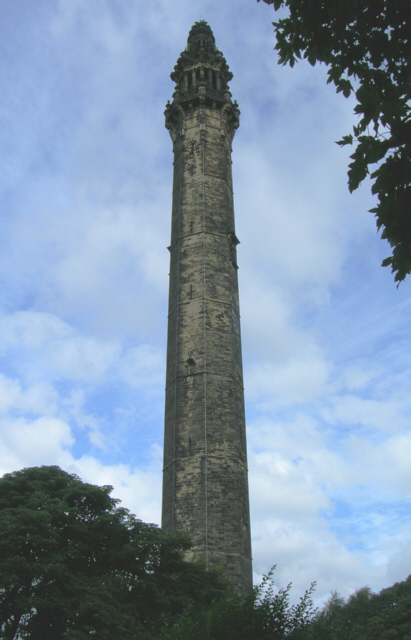 Wainhouse Tower, Halifax. Probably the most ornate factory chimney in the land, the Wainhouse Tower is certainly the tallest folly. A prominent local landmark. Check out